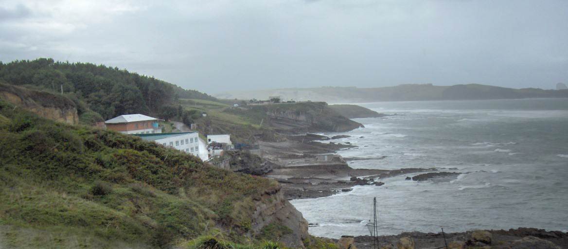 The Atlantic coast at the Costa de Cantabria, Comillas, Spain